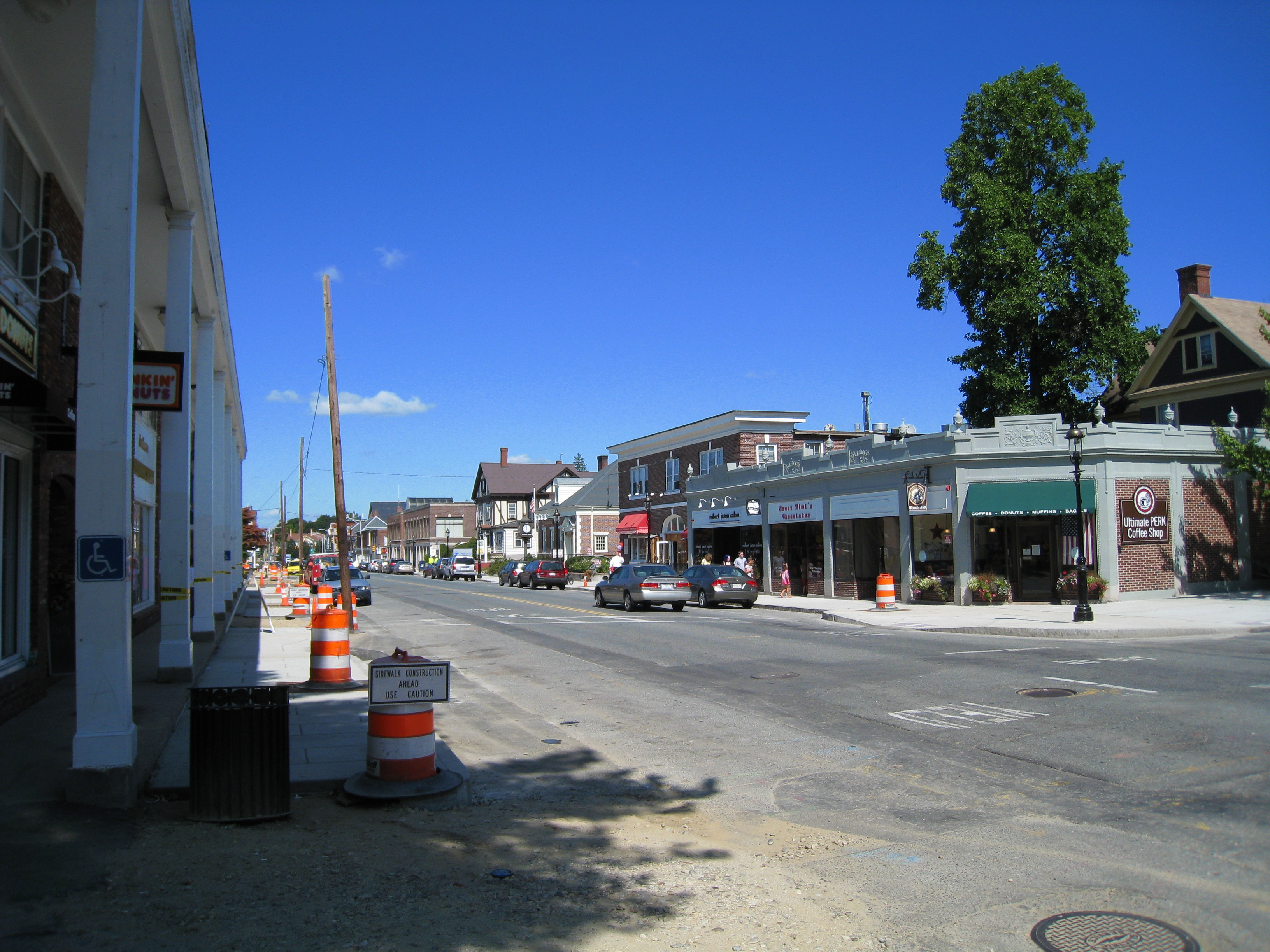 Downtown Andover, Massachusetts